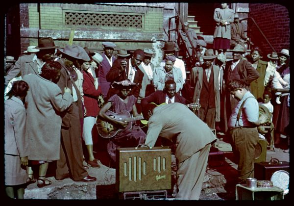 Maxwell Street Camp Meeting Description: Maxwell St. artist and on lookers. Sunday Creator: Cushman, Charles Weever, 1896-1972